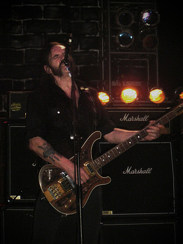 Lemmy, live during "Kiss of Death tour, in 2006